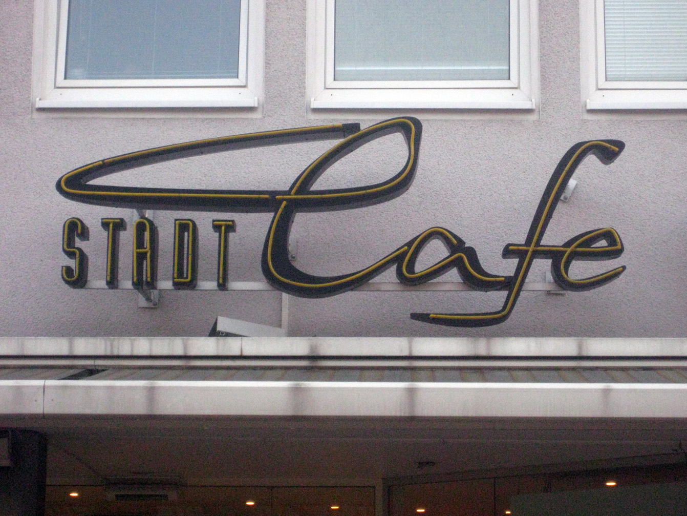 Stadtcafe, Treppenstraße, Kassel